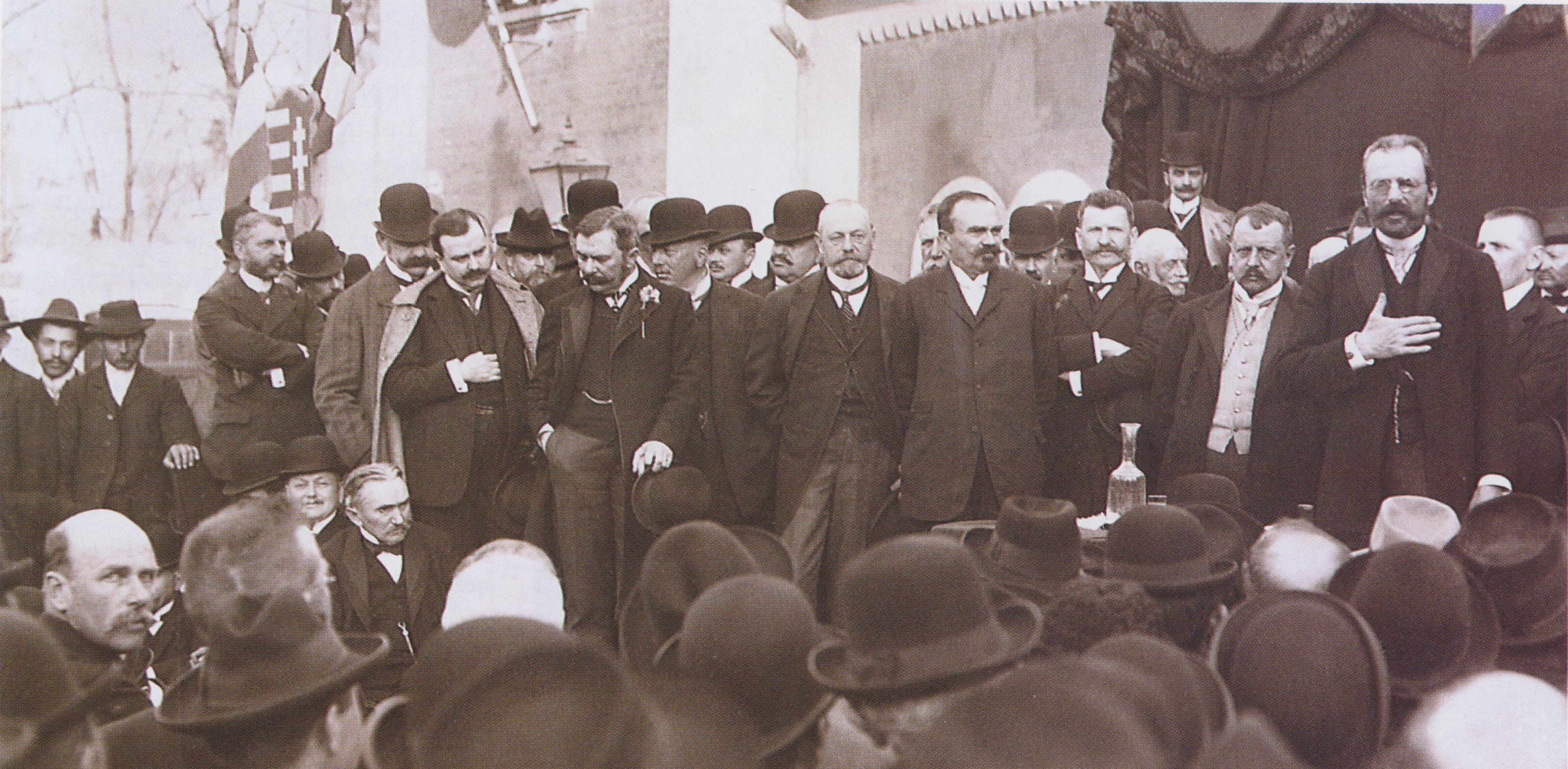 István Tisza, leader of the National Party of Work gives an electoral speech in Sopron in April 1910